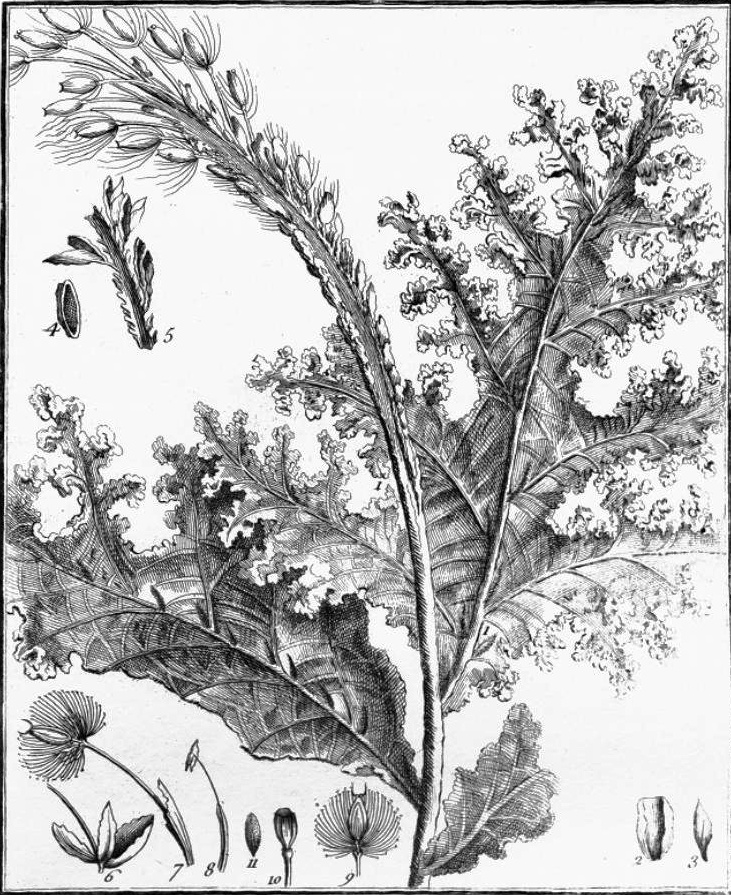 Illustration of Mourera fluviatilis